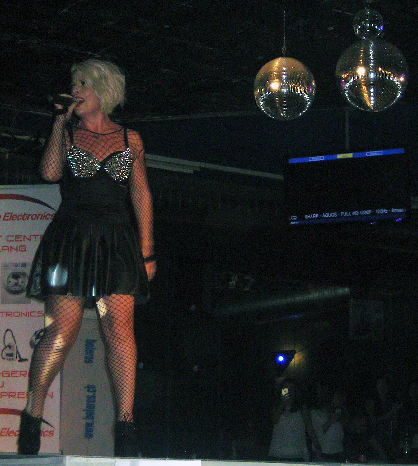 Aurela Gaçe at a concert in Zurich